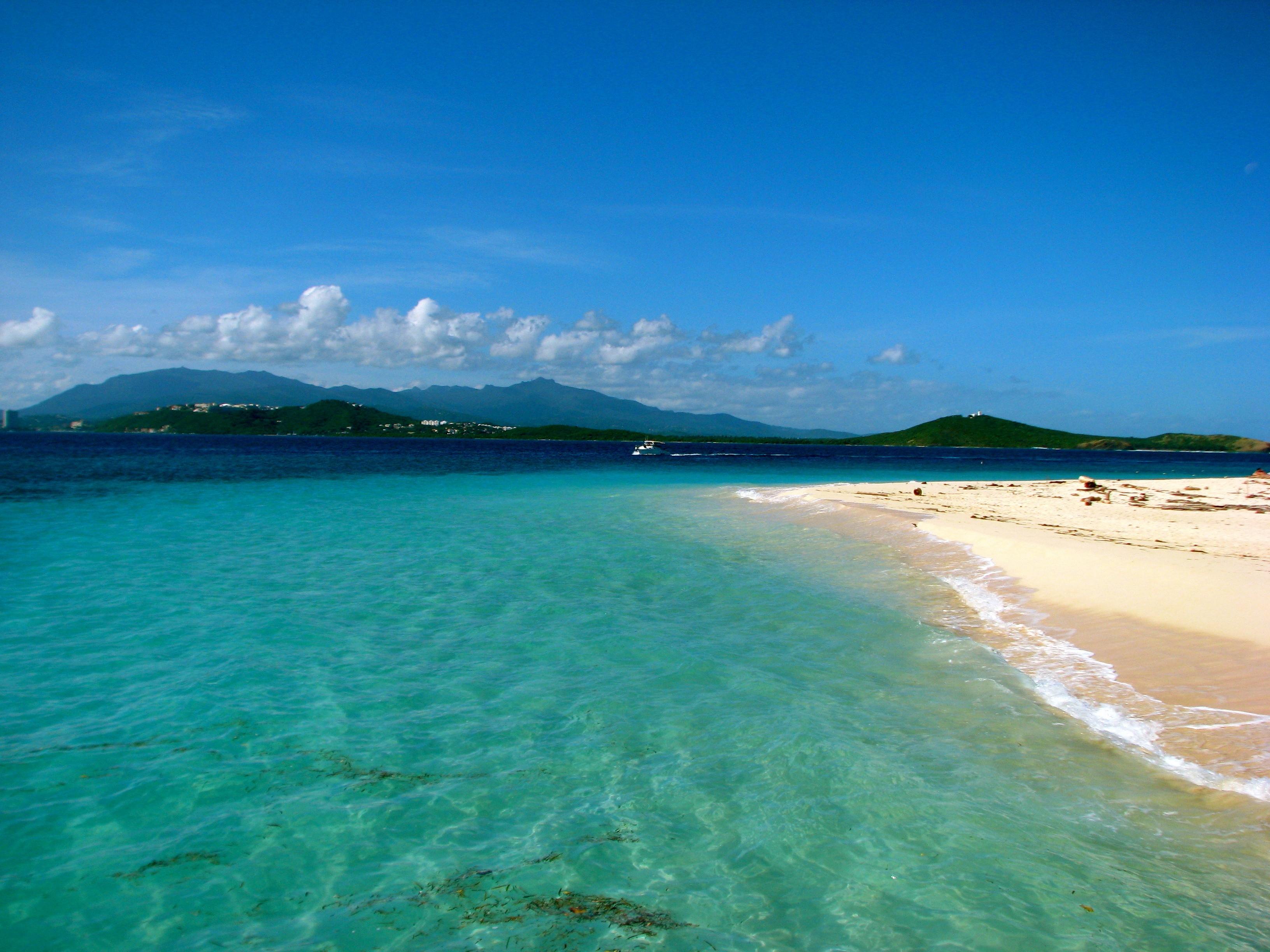 Boaters paradise